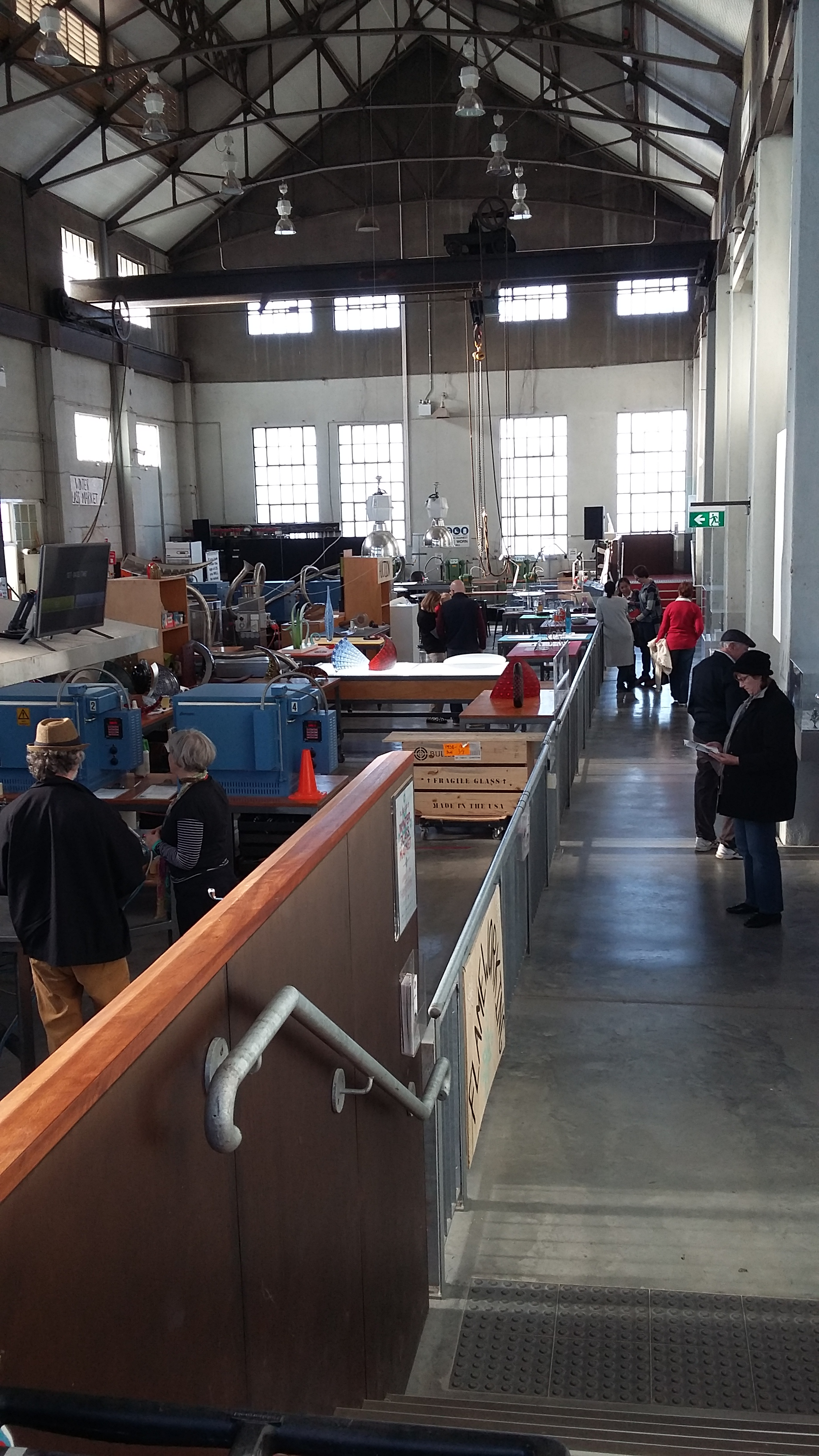 Kingston Powerhouse, Canberra, Australia, on its centenary, interior now used as a glass works